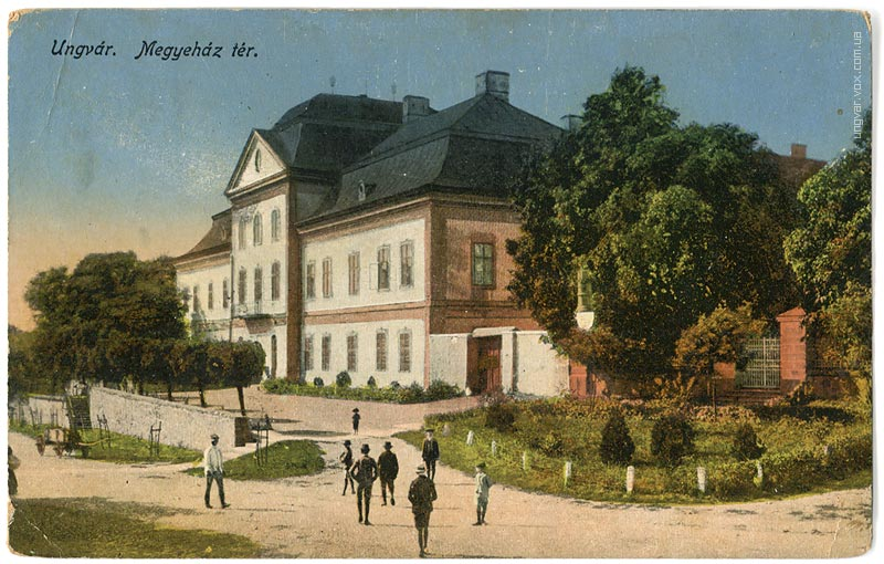 Megyeház tér Regional hall square